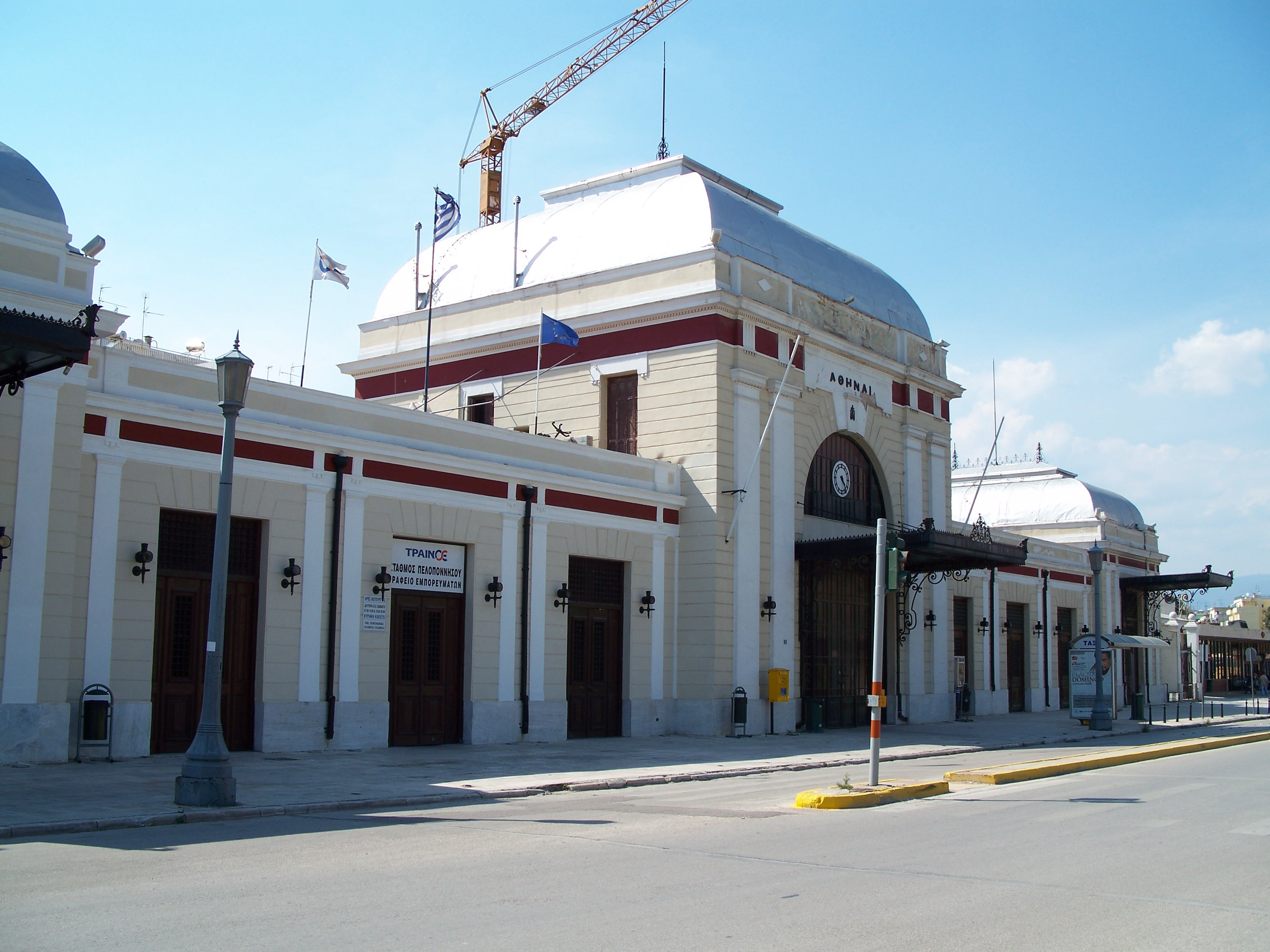 The former Peloponnisou Railway Station (Σταθμός Πελοποννήσου) in Athens, Greece. It was called Peloponissou because all metric gauge trains serving Peloponnese used this station. In 2005 it closed down and the metric gauge track lifted between Piraeus and Agioi Anargyroi.